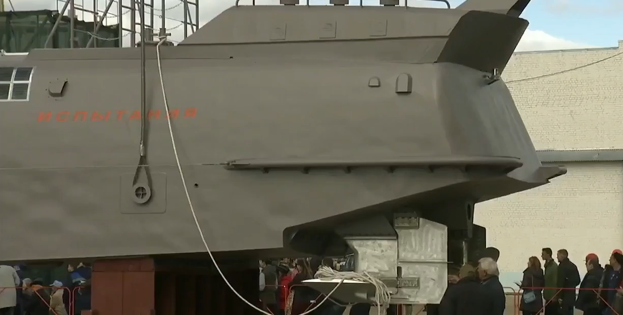 Valday 45R Hydrofoil